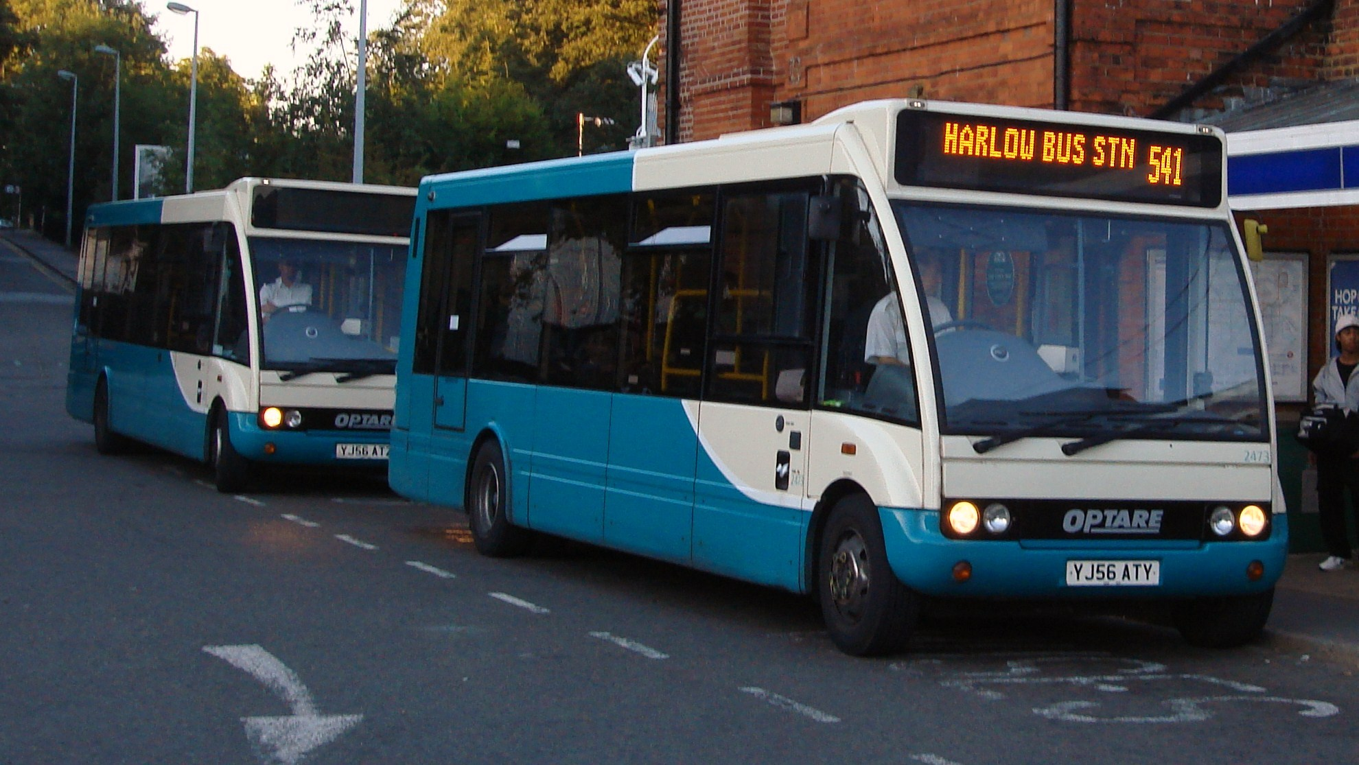 Two Optare Solos run by Arriva Shires & Essex, their 2473 and 2474 (YJ56 ATY and YJ56 ATZ) at Epping tube station.